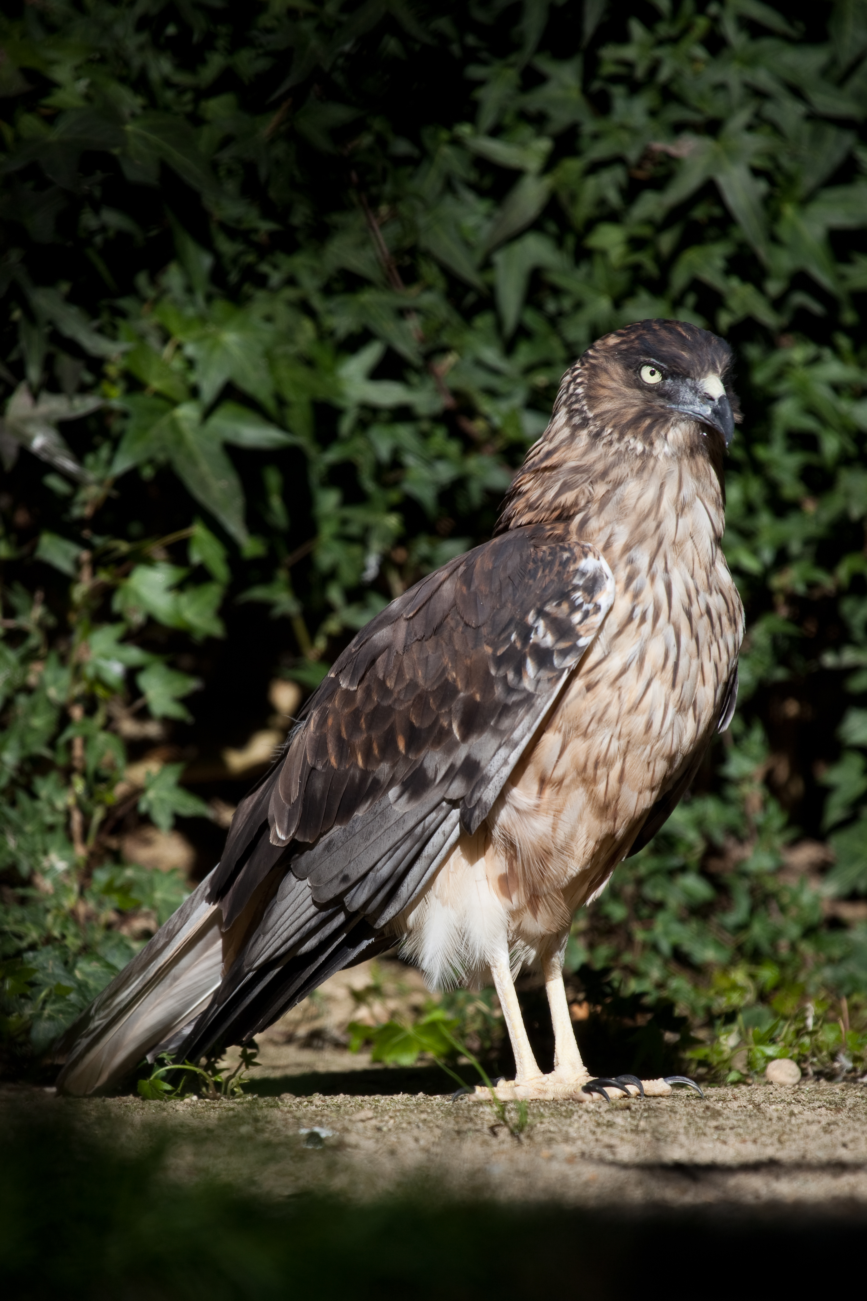 A Swamp Harrier at Hamilton Zoo, New Zealand.